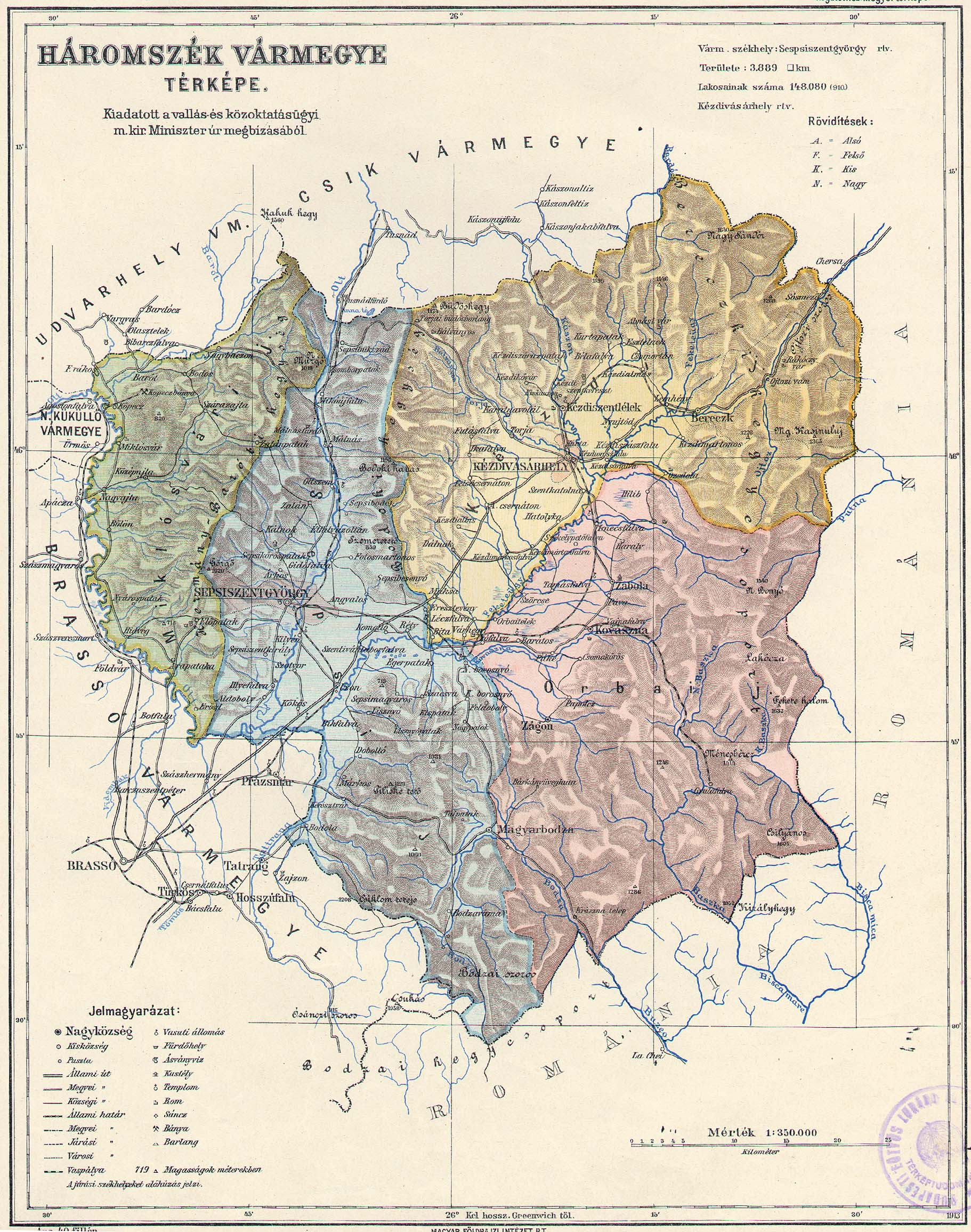 Administrative map of the county of Háromszék in the Kingdom of Hungary